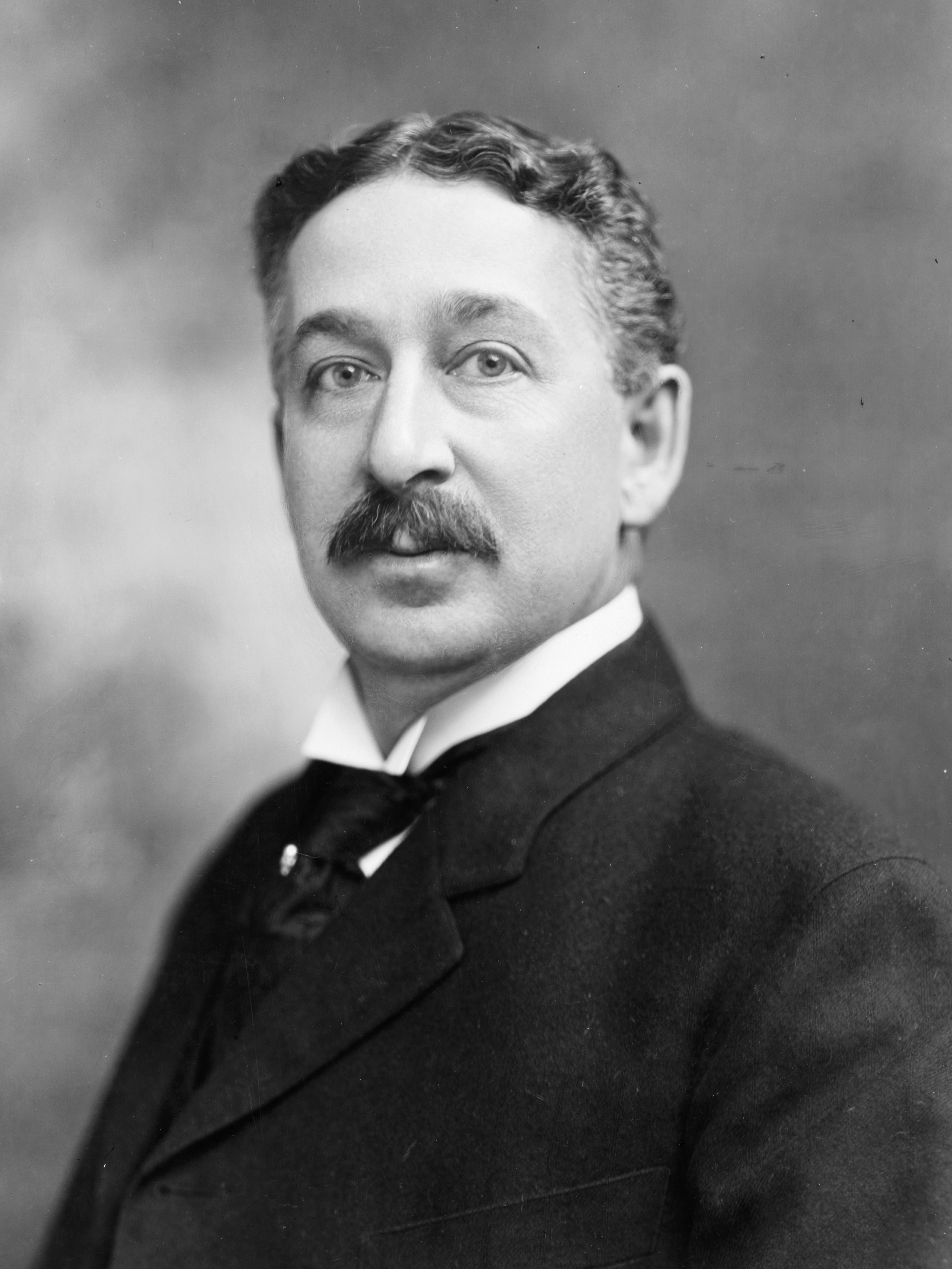 King Camp Gillette, inventor and businessman Creator(s): Falk, B. J. (Benjamin J.), 1853-1925, photographer Date Created/Published: c1906. Medium: 1 photographic print. Reproduction Number: LC-USZ62-103167 (b&w film copy neg.) Call Number: BIOG FILE - Gillette, King Camp, 1855-1932 [P&P] Notes: H74757 U.S. Copyright Office. "Falk, New York" handwritten on verso.